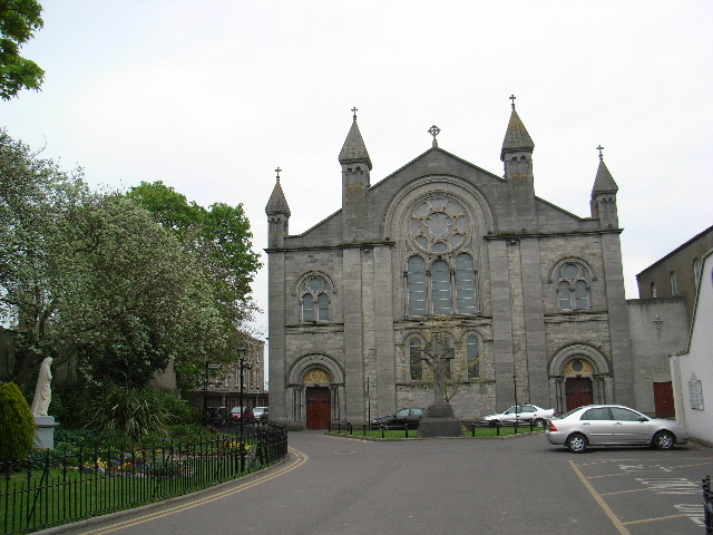 St Mary's Roman Catholic Church Originally built 1836, with extensive remodelling in 1885.